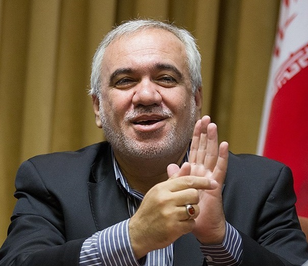 Ali Fathollahzadeh, Iranian football manager